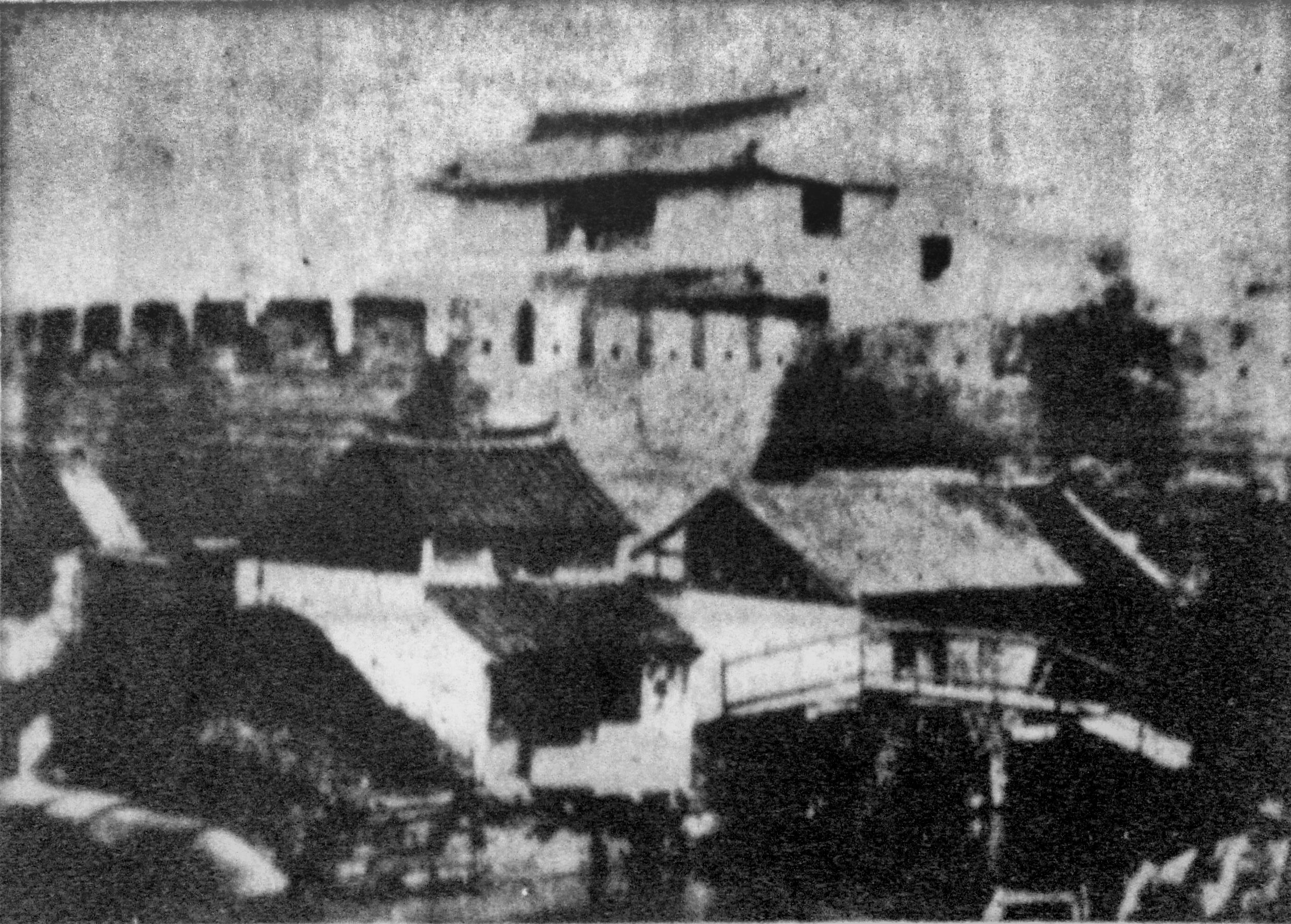 Shanghai_Old_City_Laoxi_gate_in_1880